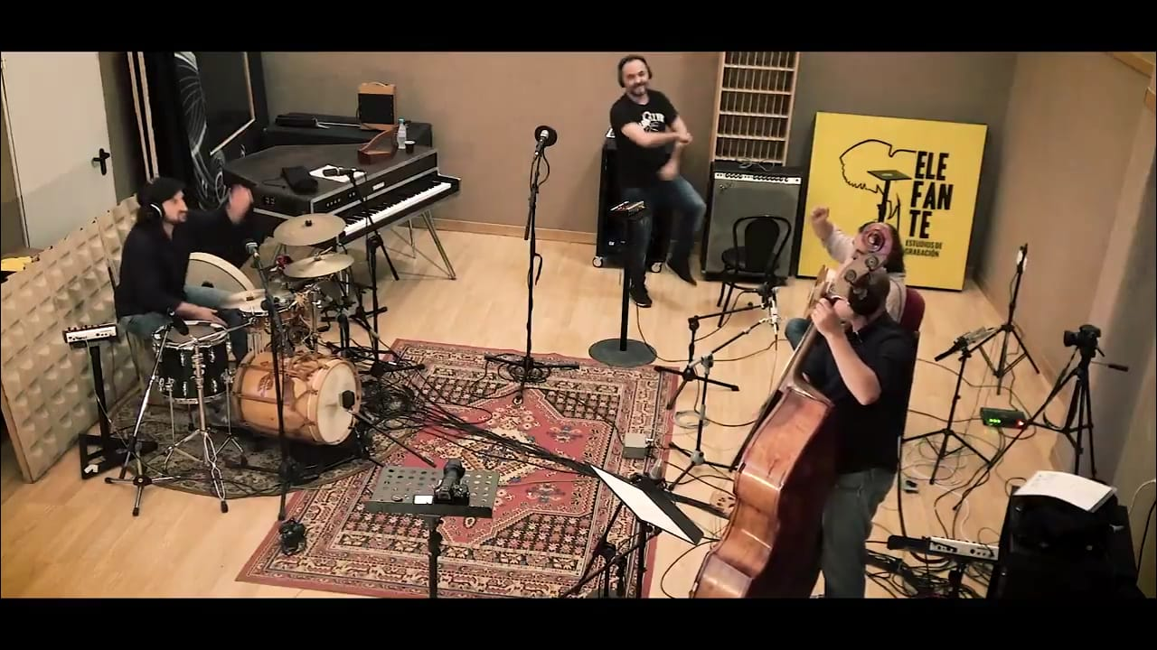 Krama recording live in the studio